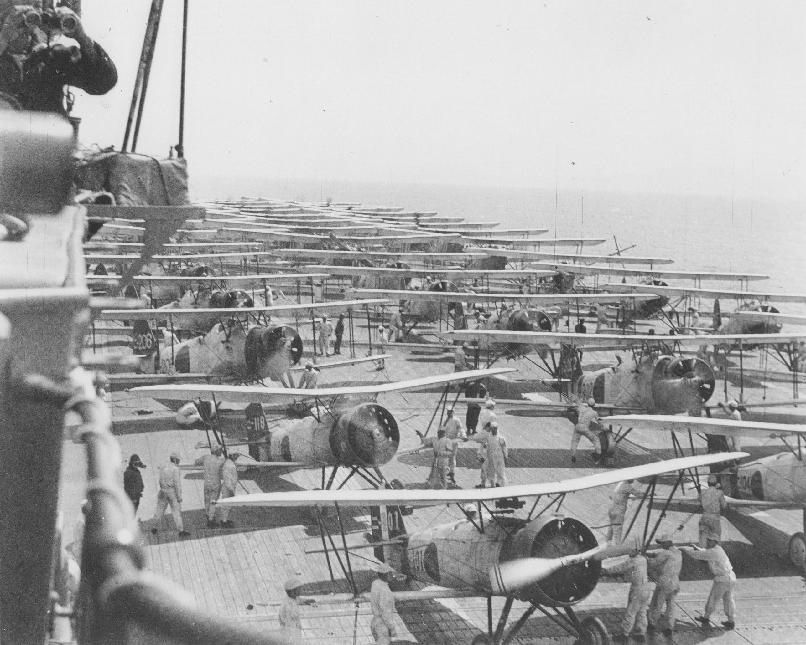 Imperial Japanese Navy aircraft carrier Kaga conducts air operations in 1937. On the deck are Mitsubishi B2M Type 89, Nakajima A2N Type 90, and Aichi D1A1 Type 94 aircraft.